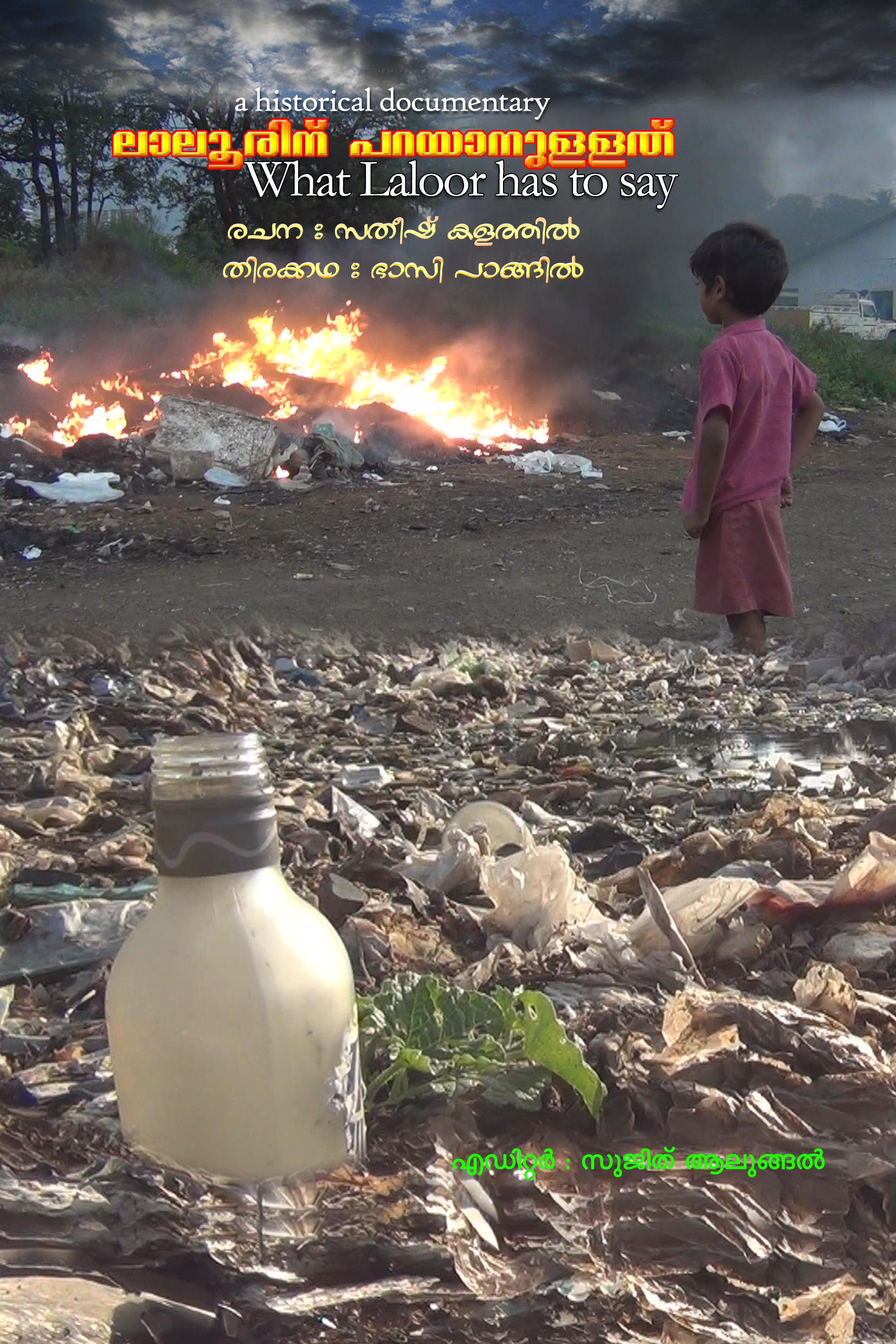 This a scanned front page copy of Laloorinu Parayanullathu script